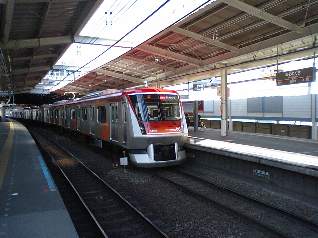 A Tokyu 6000 series EMU at Mizonokuchi Station on a Tokyu Oimachi Line service